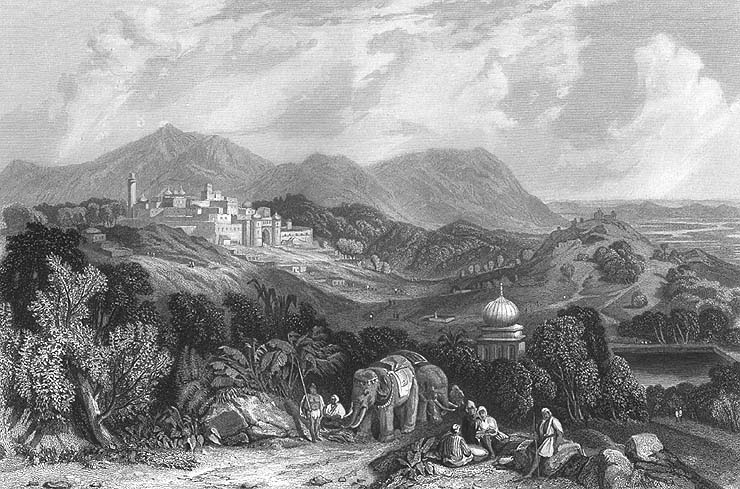 The Fort of Nahan, c.1850.jpg